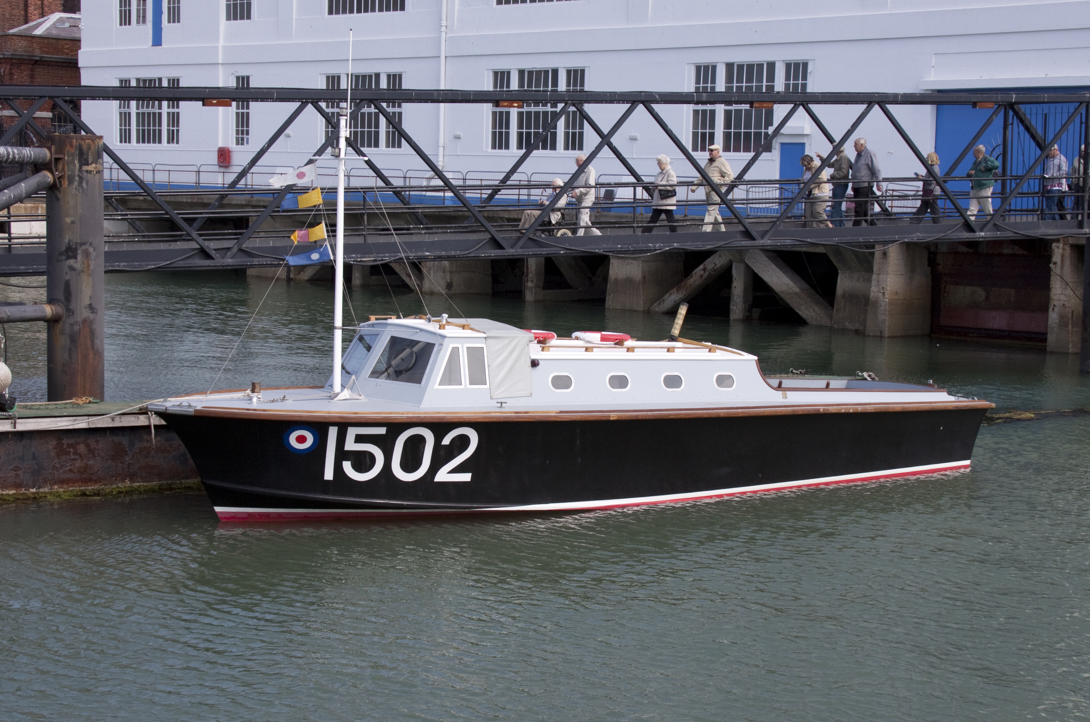 Seaplane Tender MkIA 1502 Portsmouth